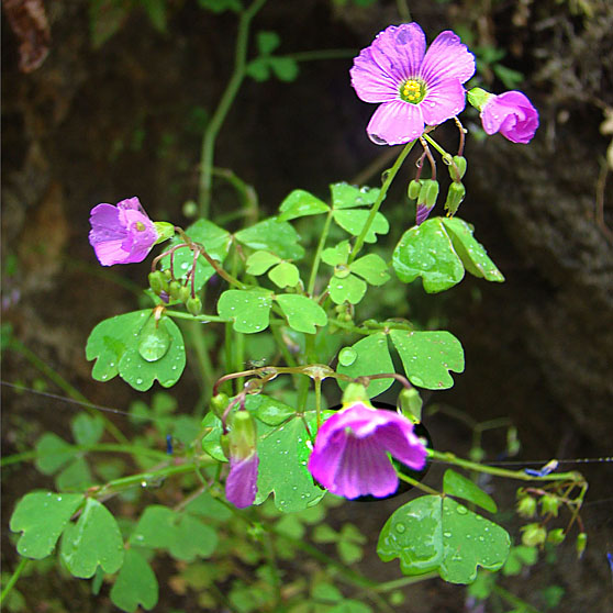 Native to central and southern Chile, known by names such as Culle Rosado. In context at